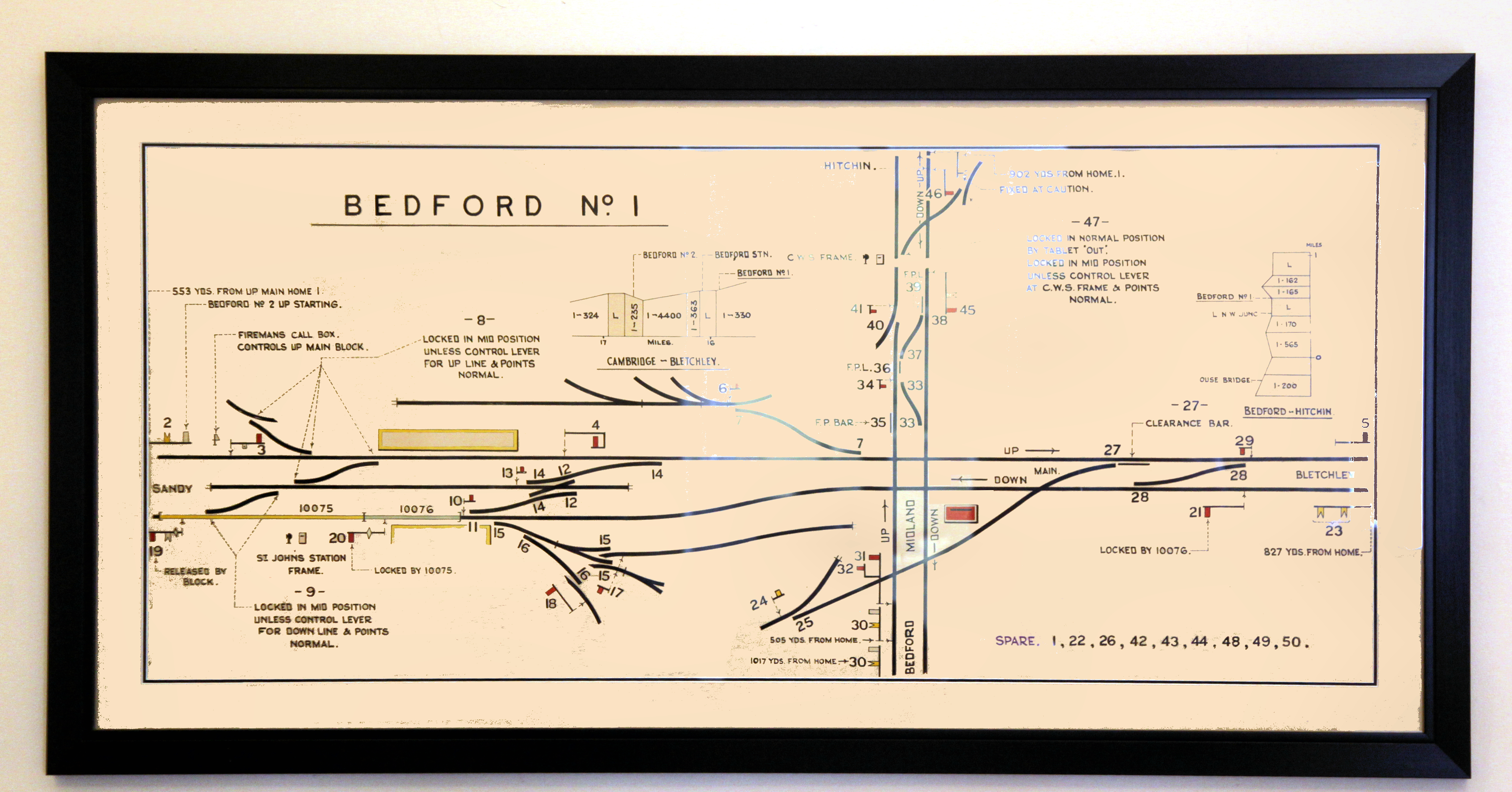 Signalling diagram from the former Bedford No1 signal box (L&NWR) that was situated on the at grade (level) crossing of the Midland Railway's line from Bedford Midland Road to Hitchin, and the London & Northwestern Railway's line from Bedford St Johns to Bletchley. The diagram is framed and behind glass - unsure if this is original.